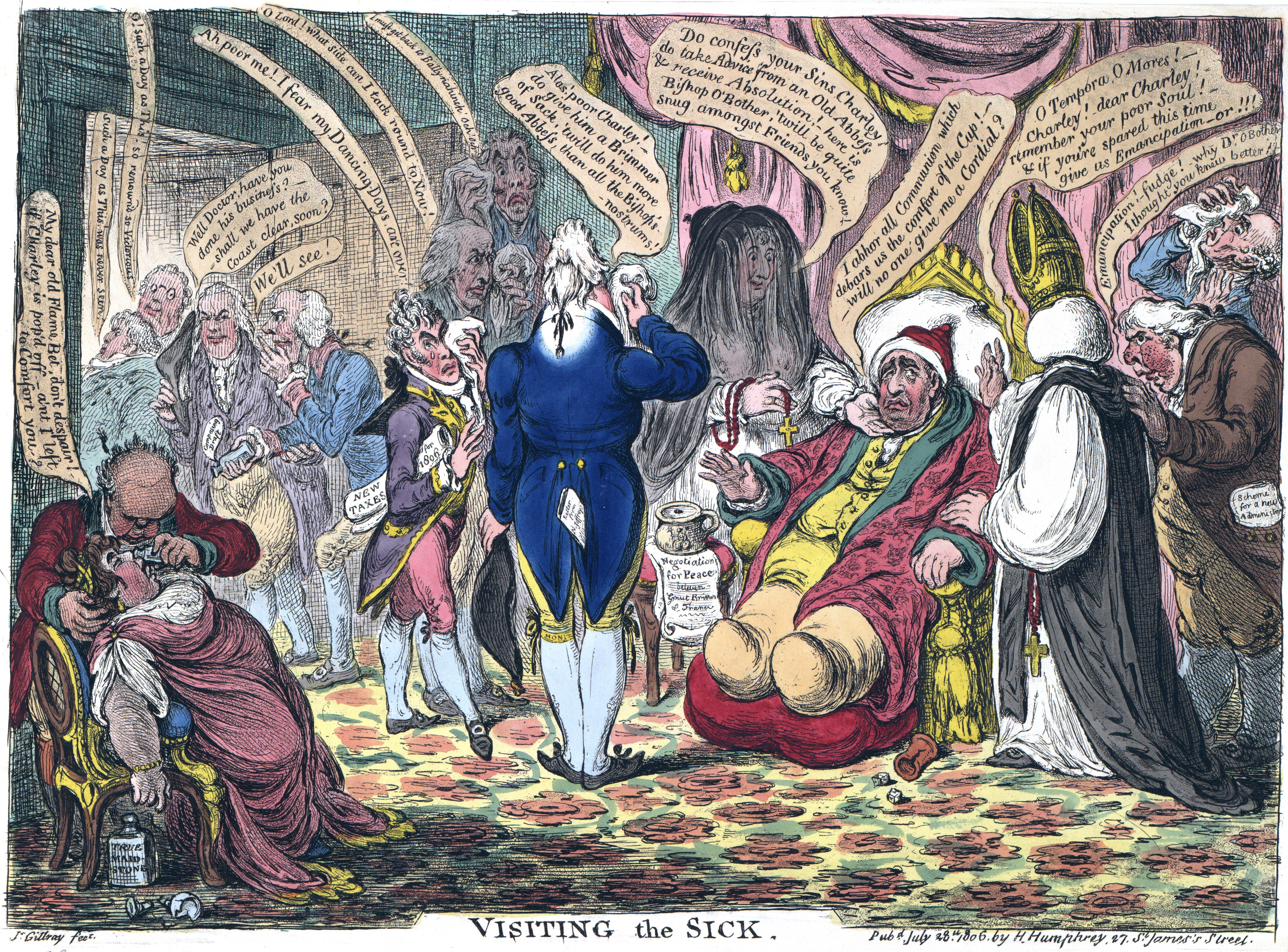 Visiting the Sick SUMMARY: Print shows Charles Fox sitting in an armchair, obviously ill. On one side of him is Mrs. Fitzherbert, dressed as an abbess and holding a rosary; on the other side is a bishop in robes and mitre. In front of Fox, the Prince of Wales holds his handkerchief to his face. Sheridan, standing behind the bishop, admonishes the bishop to understand that Catholic emancipation is not possible. Howick, Petty, Windham and Moira are all distressed; Grenville and Sidmouth are leaving the room hoping Fox will expire. Mrs. Fox faints in a chair and is attended by Lord Derby. MEDIUM: 1 print : etching, hand-colored. CREATED/PUBLISHED: London : S.W. Fores, 1806 July 18th.